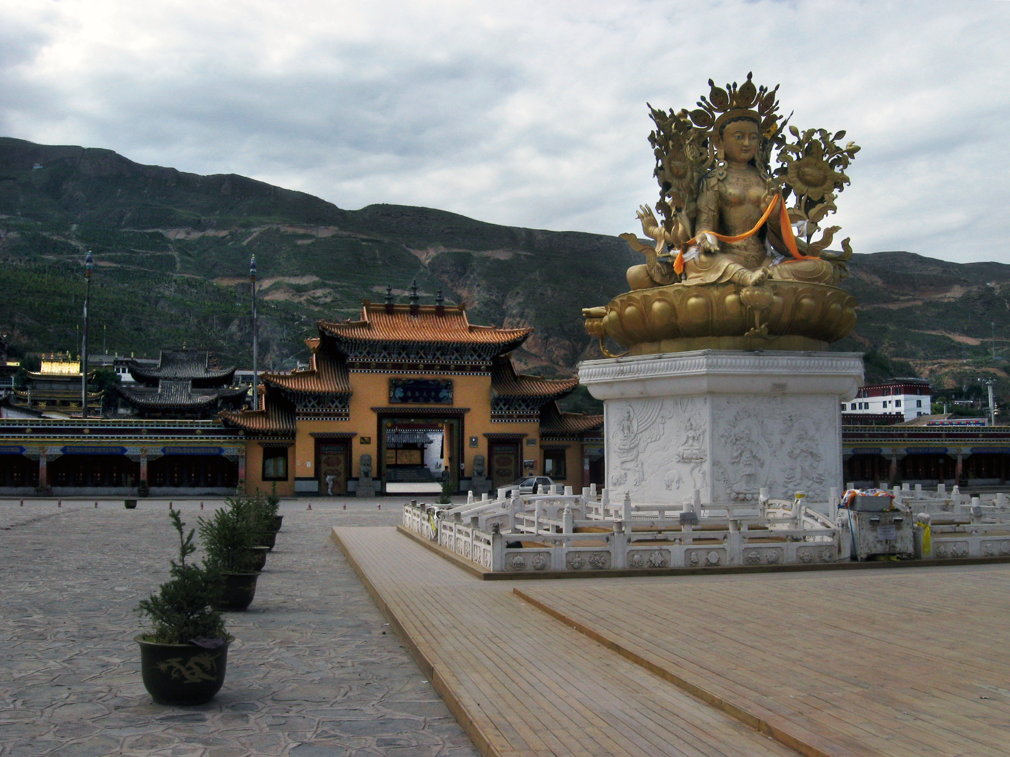 Square in front of Rongwo monastery (Rebkong, Tongren), Qinghai Province.